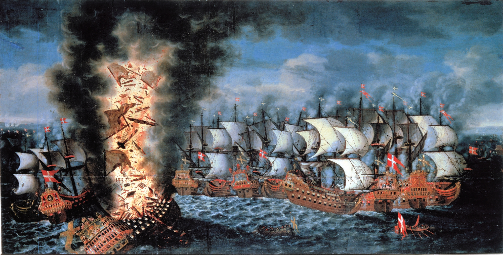 Battle of Öland. Claus Møinichen, 1 june 1676.